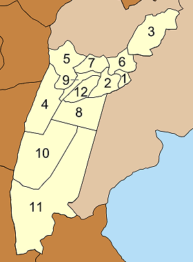 Map of Amphawa district, Samut Songkhram province, with the communes (tambon) numbered Amphawa (อัมพวา) Suan Luang (สวนหลวง) Tha Kha (ท่าคา) Wat Pradu (วัดประดู่) Mueang Mai (เหมืองใหม่) Bang Chang (บางช้าง) Khwae Om (แควอ้อม) Plai Phongphang (ปลายโพงพาง) Bang Khae (บางแค) Phraek Namdaeng (แพรกหนามแดง) Yi San (ยี่สาร) Bang Nang Li (บางนางลี่)